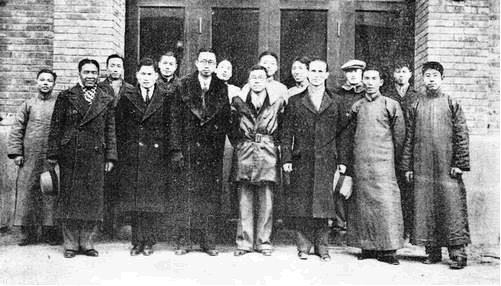 The All Teachers & Students of the Aviation Group of Tsinghua University, 1936.